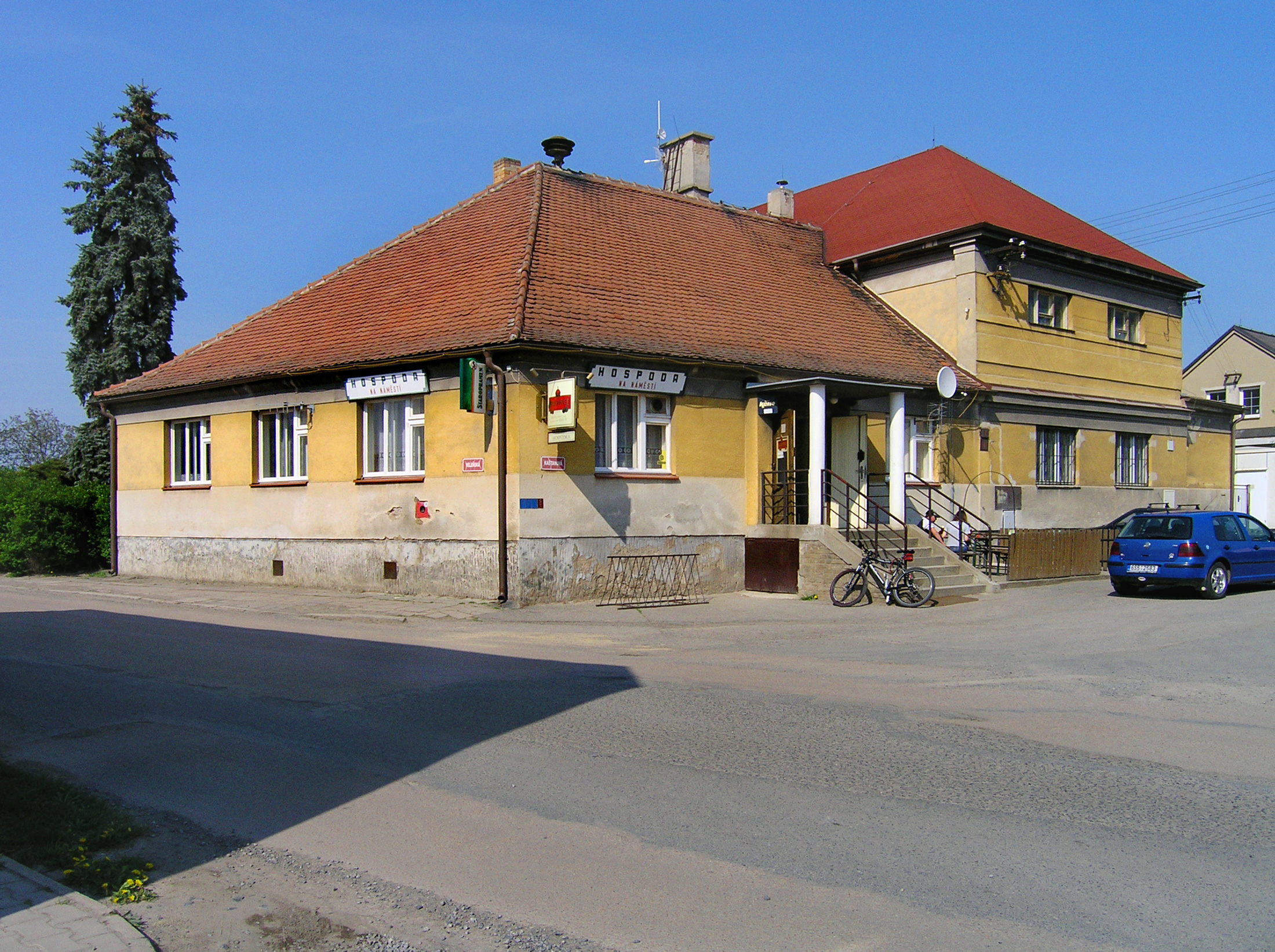 Pub in Přezletice village, Czech Republic